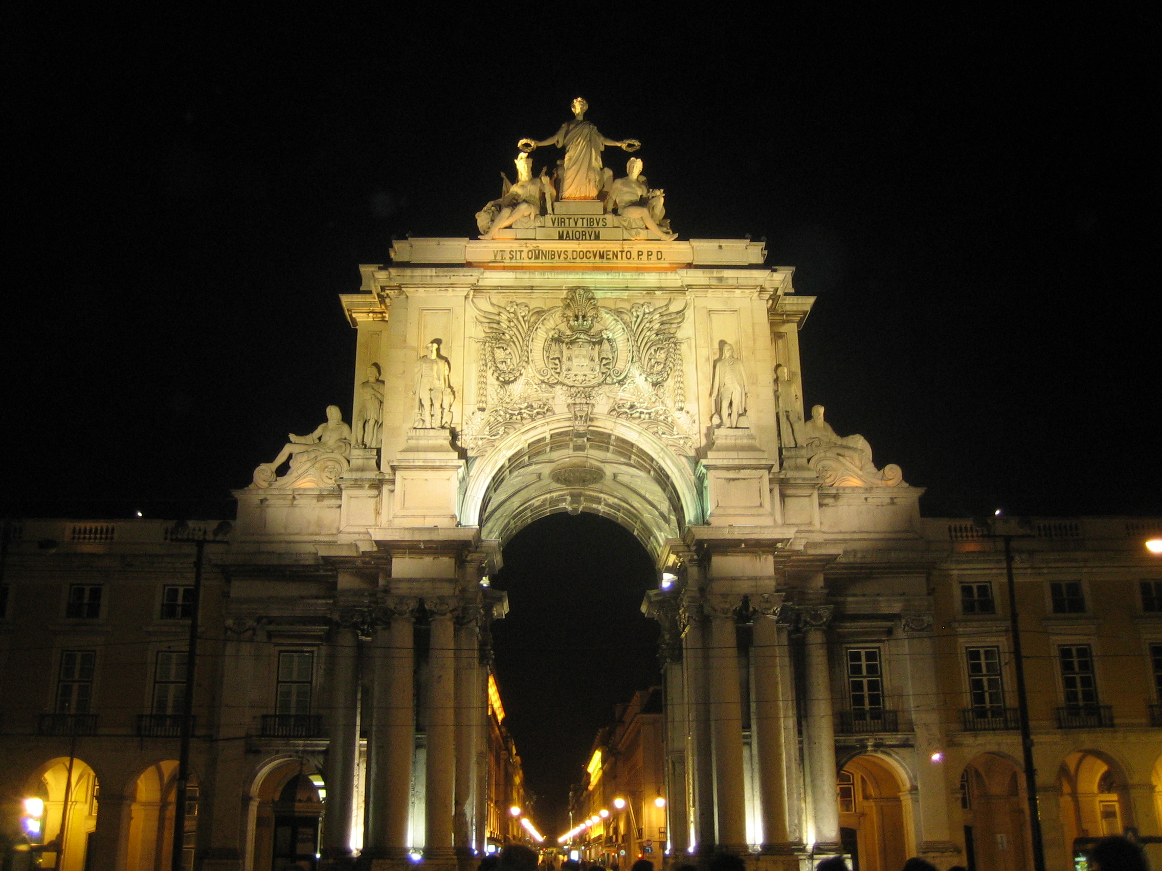 The famous Augusta Street Arch which links the Street to the Praça do Comércio. Picture taken by night in April.